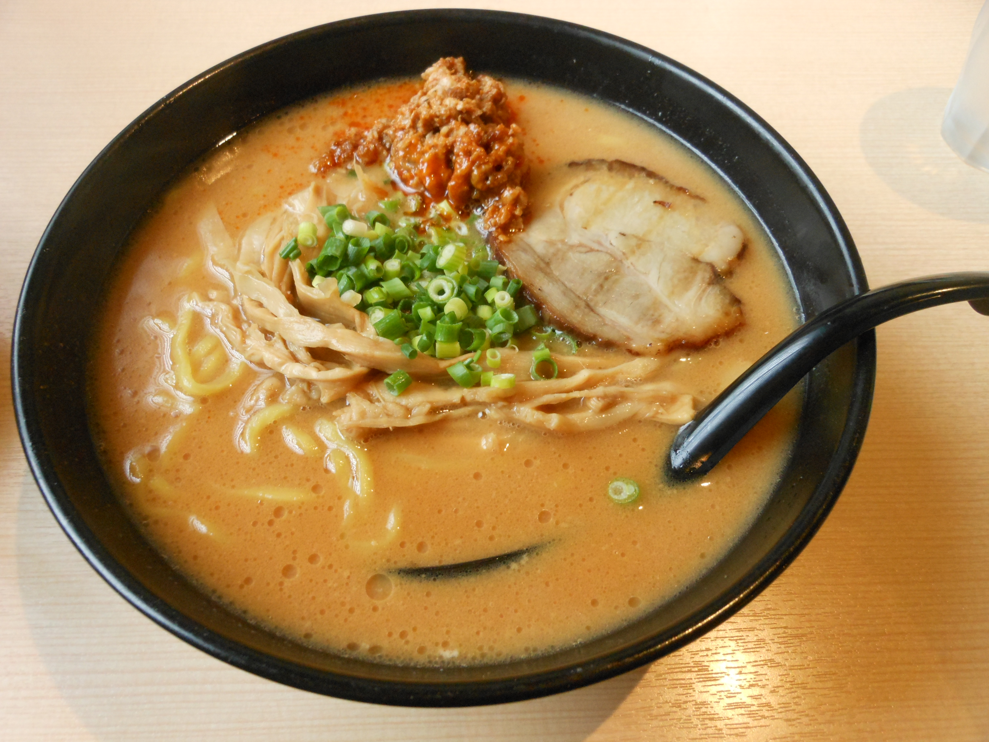 This is An-yōji Ramen in Saku, Nagano, Japan.